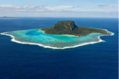 oblique aerial photograph of Vatu Vara Island, Fiji Islands